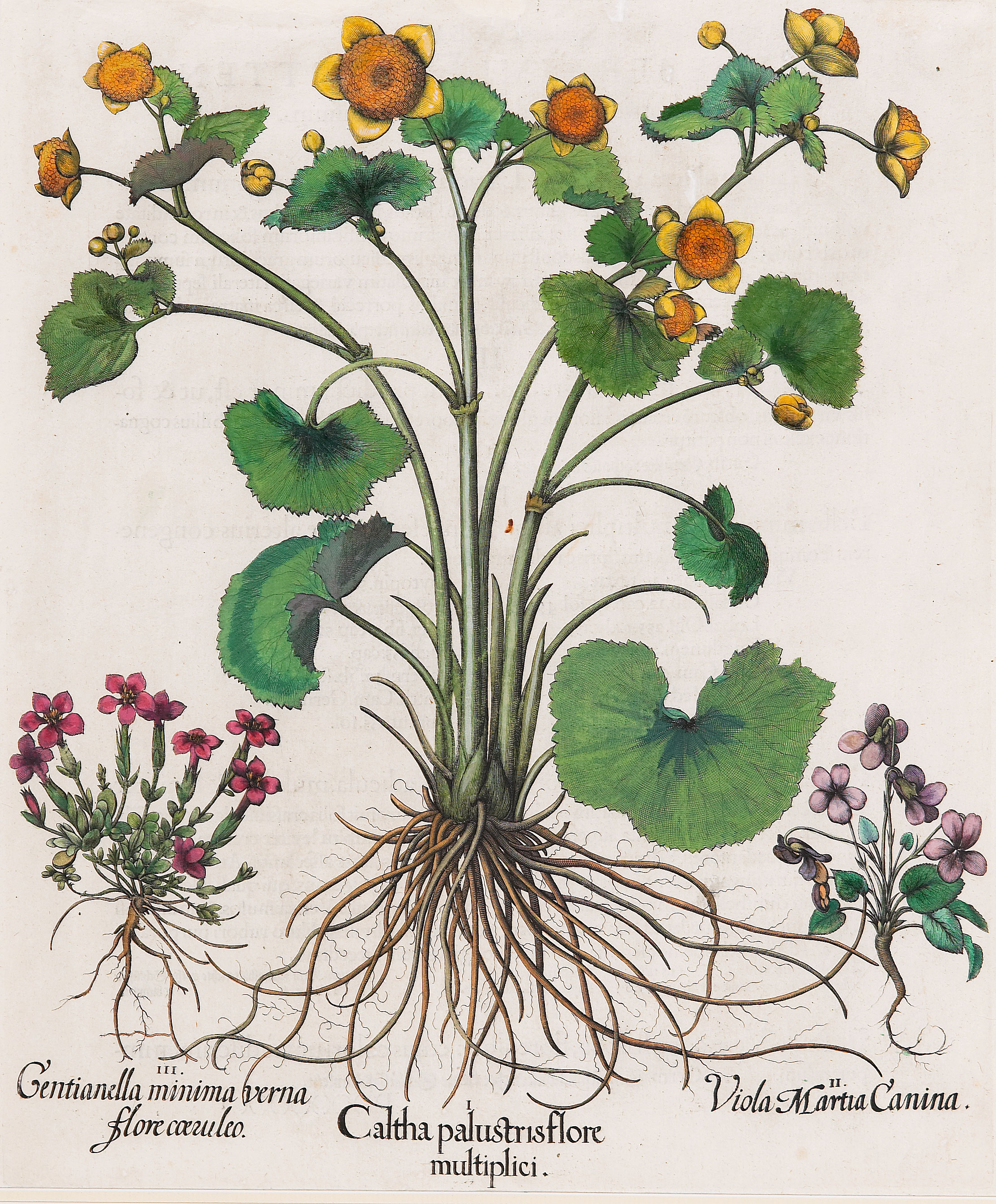 Caltha palustris flore. Hand colored print. From 'Hortus Eystettensis'